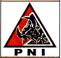 Indonesian National Party logo